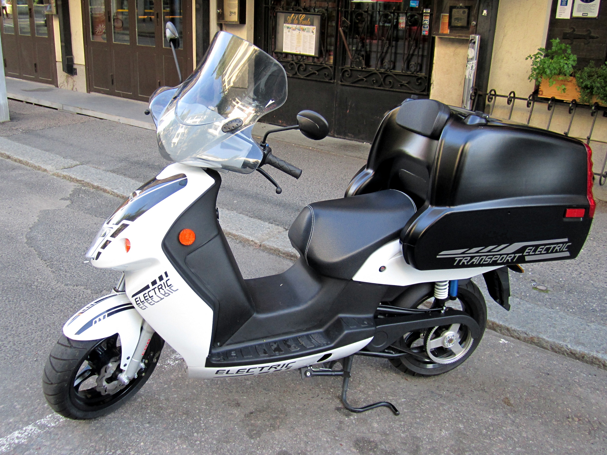 Govecs (GO! T 1.2) electric delivery scooter with a huge pizza box. This scooter is restricted to 45 km/h speed (moped).